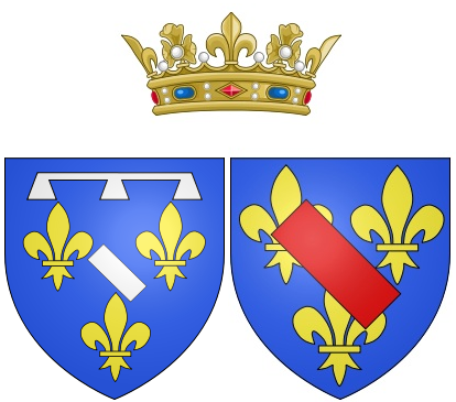 Coat of arms of Anne Geneviève de Bourbon as Duchess of Longueville